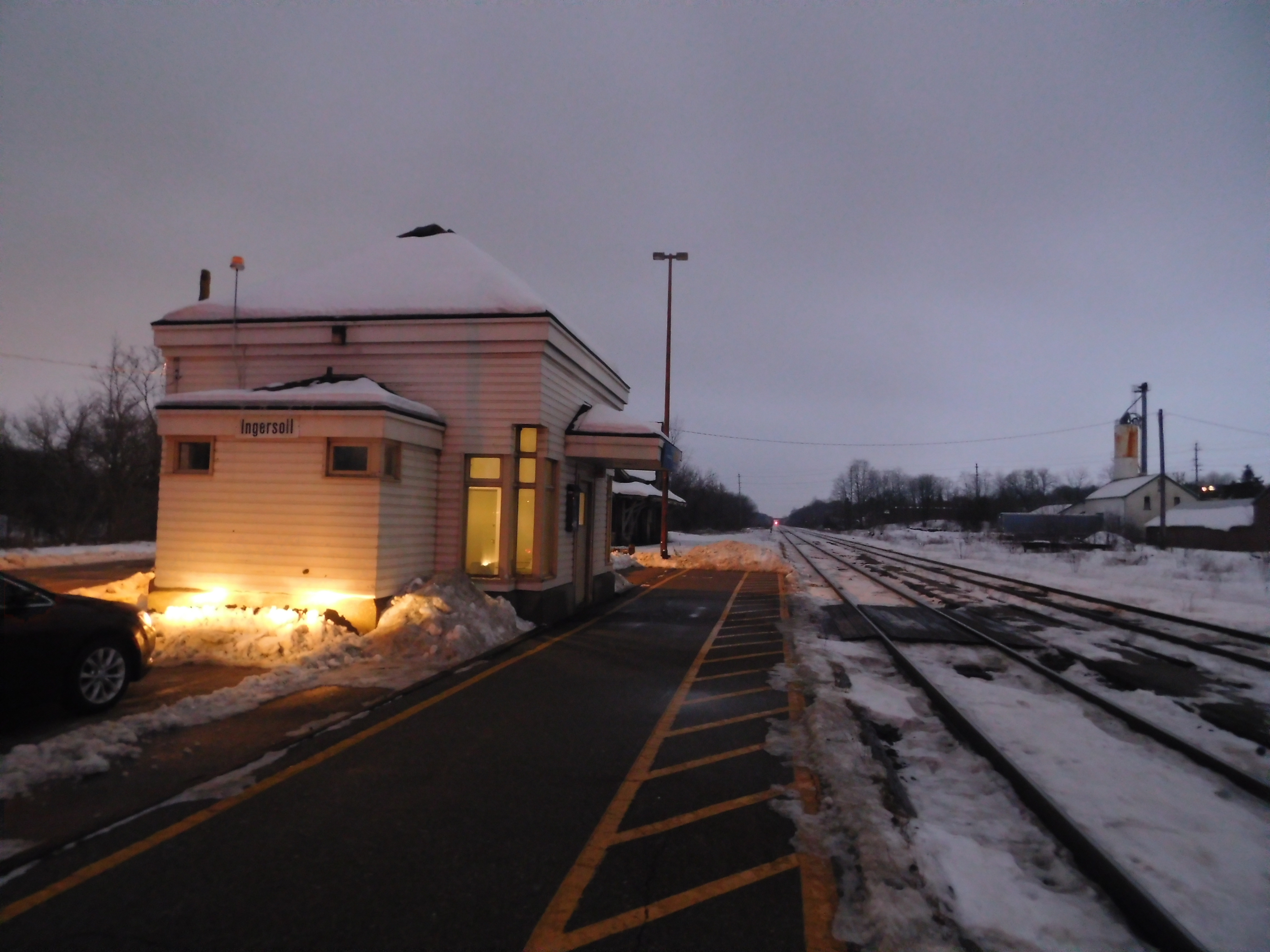 The Ingersoll station for the VIA Rail Corridor in December 2016.